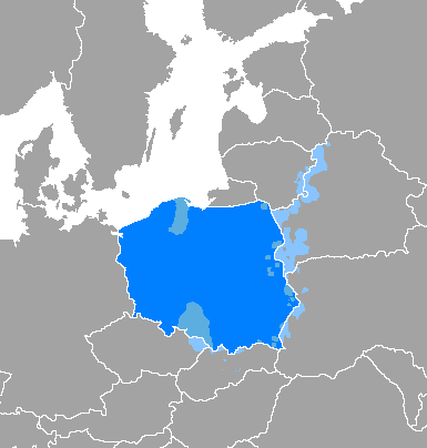 The range of Polish language. Dark blue – area, where Polish is strictly dominant, virtually the only spoken language, medium blue – area, where Polish is a majority language, light blue – area, where Polish is a minority language.